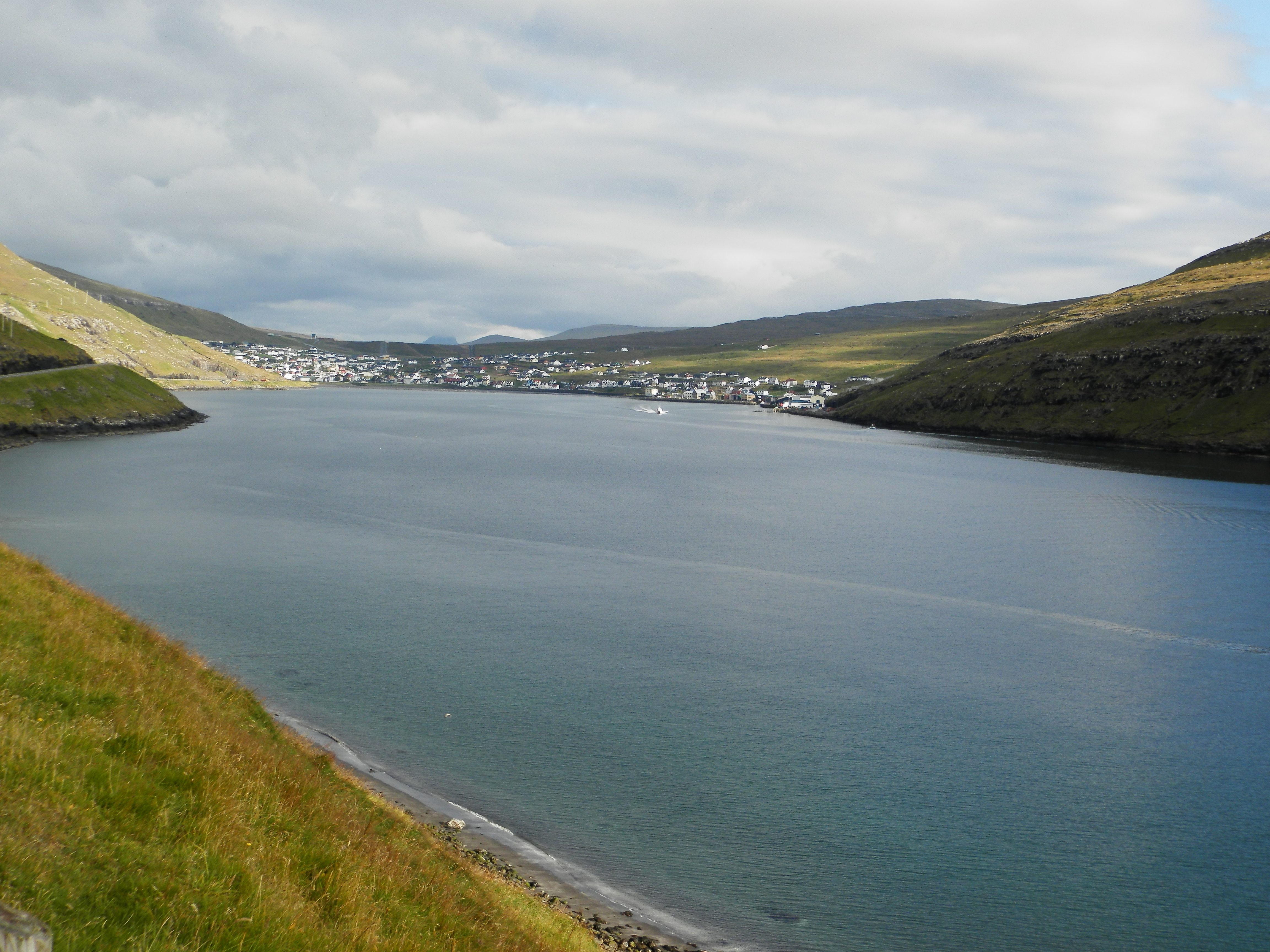 Sørvágur and Sørvágsfjørður in the Faroe Islands on 30 August 2014.